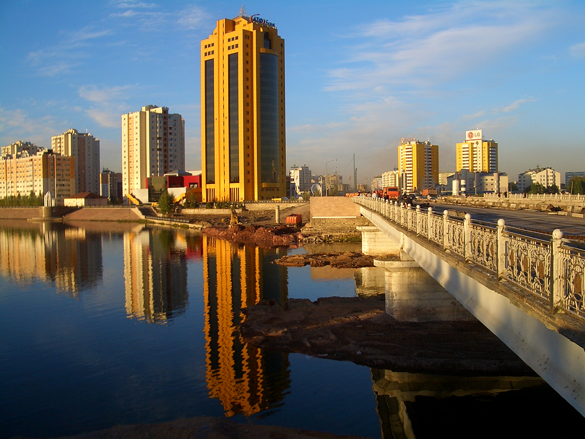 Dump trucks at the construction of an area of an Ishim River embankment near a new bridge in Nur-Sultan, Kazakhstan.